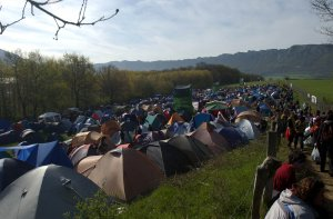 Gazte Topagunea 2006, Etxarri Aranatz. Over 20.000 basque youth independentists made a 4 day meeting in Etxarri Aranatz, Navarre.